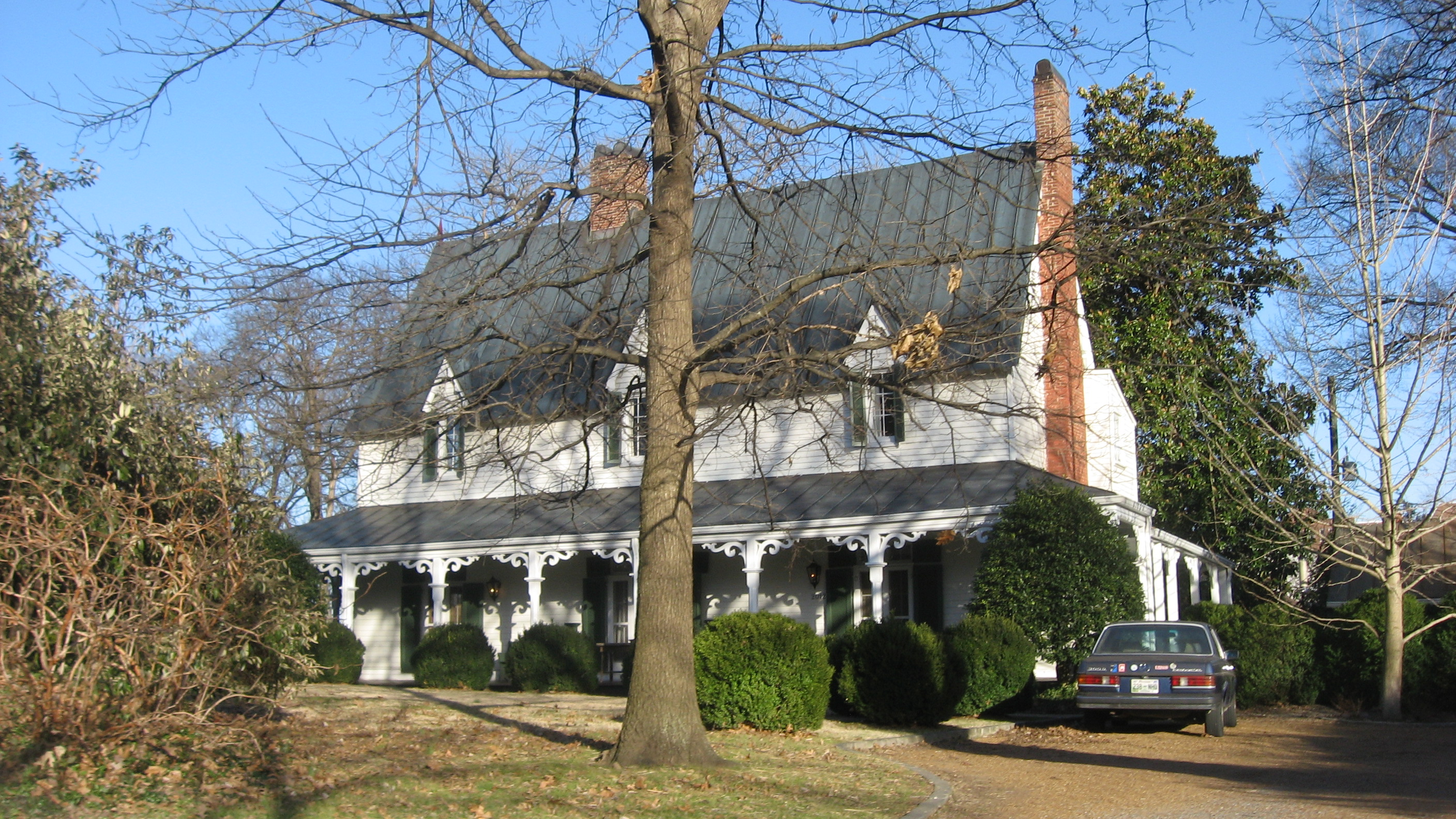 Front of Glen Oak, located at 2012 Twenty-fifth Avenue South in Nashville, Tennessee, United States. Built in 1854, it is listed on the National Register of Historic Places, and it is part of a Register-listed historic district, the Hillsboro-West End Historic District.